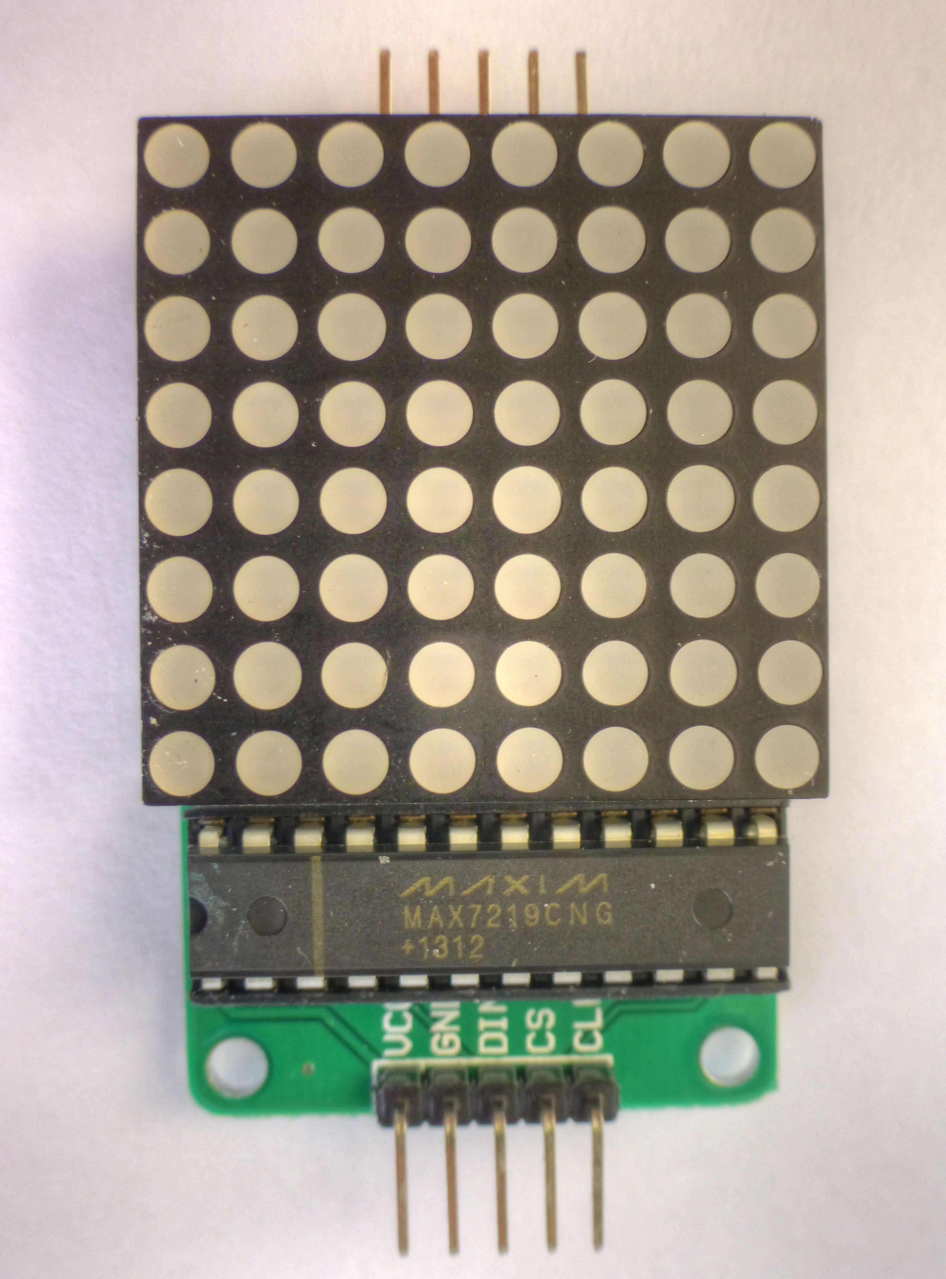 LED, Light-emitting diode